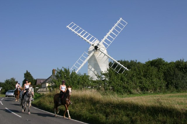 Equestrians in the B1039 road passing the post mill at Little Chishill, South Cambridgeshire. The mill was built in 1819 using timbers from an earlier mill of 1726. It was last used in 1951.